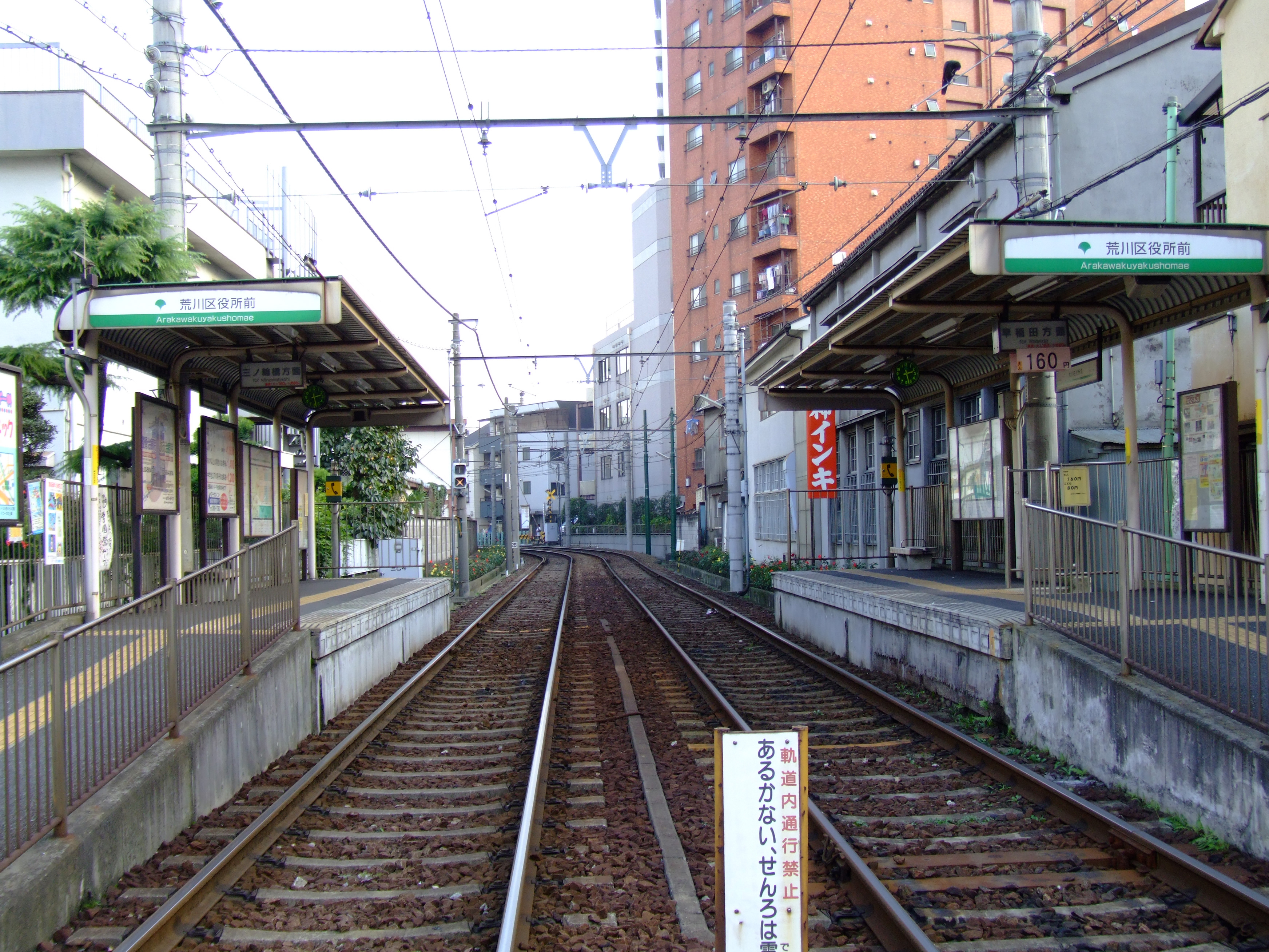 Arakawakuyakushomae (Arakawa ward office) station (Toden Arakawa Line)